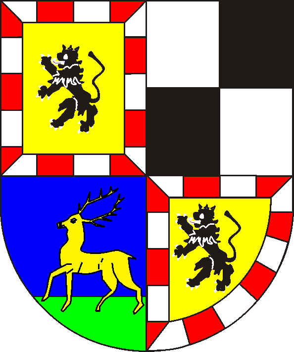 coats of arms of the principality of Hohenzollern-Sigmaringen; 1,4: bourggraviat of Nürnberg; 2: county of Hohenzollern; 3: county of Sigmaringen